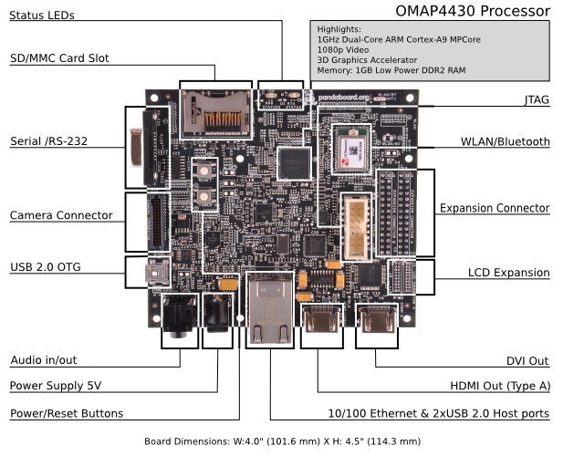 PandaBoard by Texas Instruments described